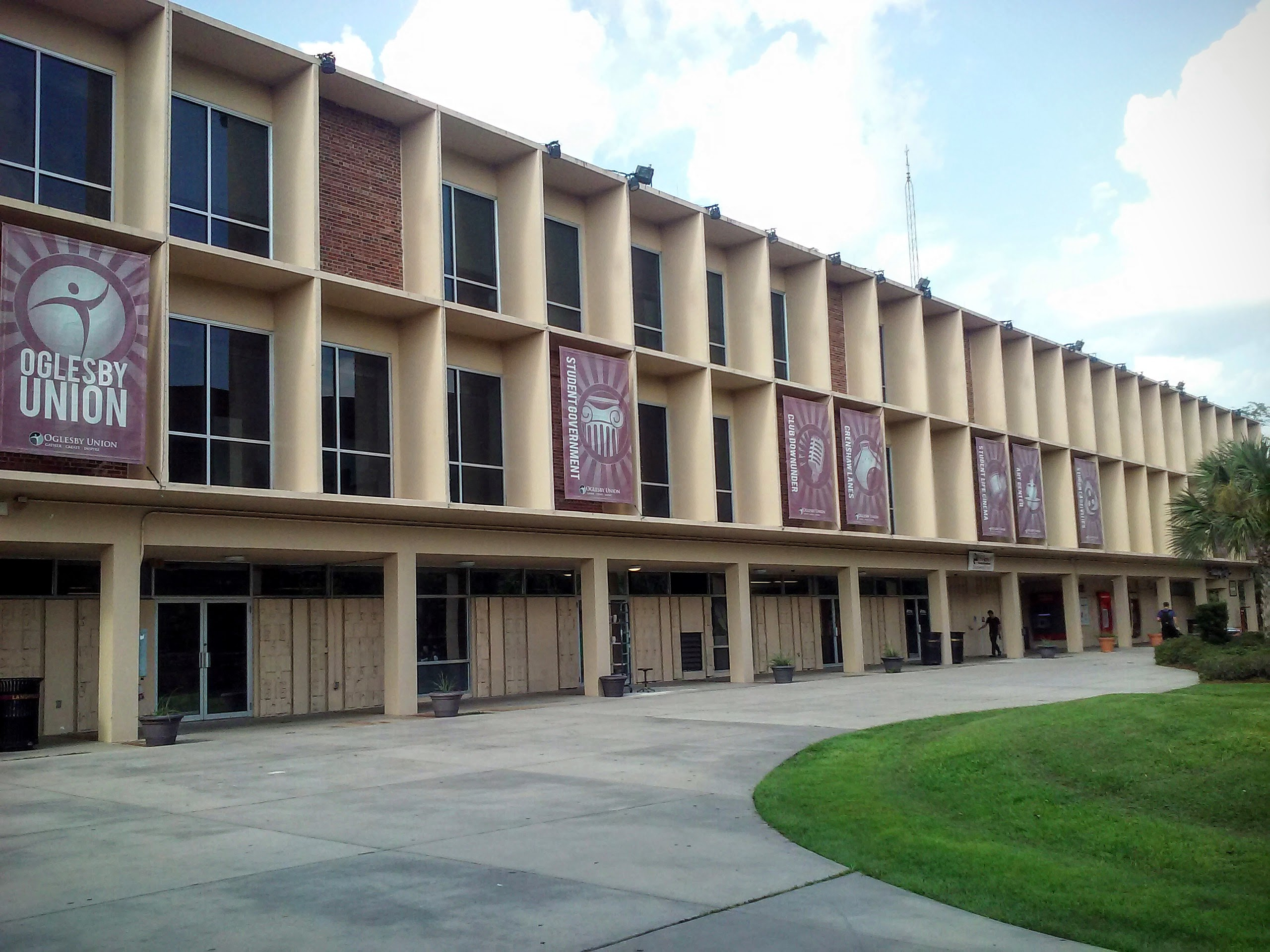 The southern entrance of the Oglesby Union